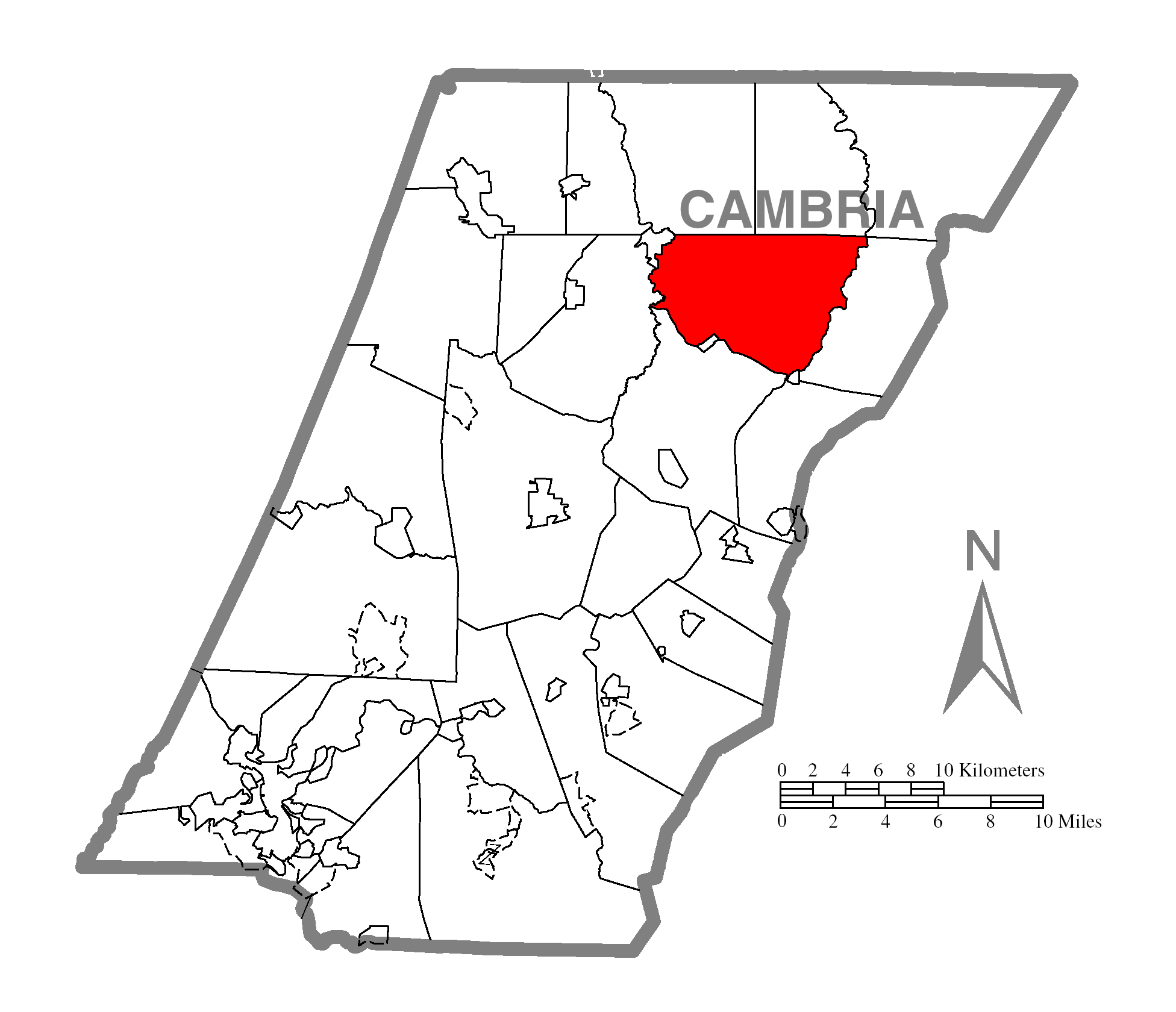 A map of Cambria County showing Clearfield Township, Pennsylvania (alternate) highlighted on the map.